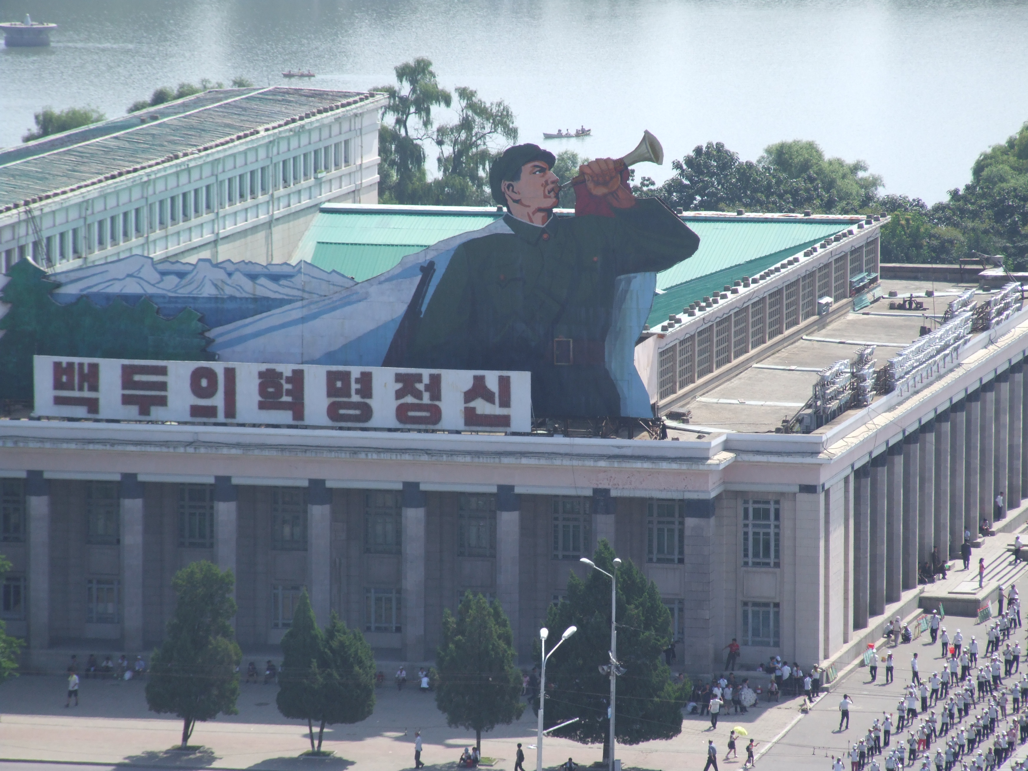 Korean Central History Museum, Pyongyang